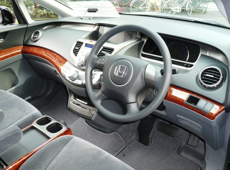 Hona Odyssey interior.